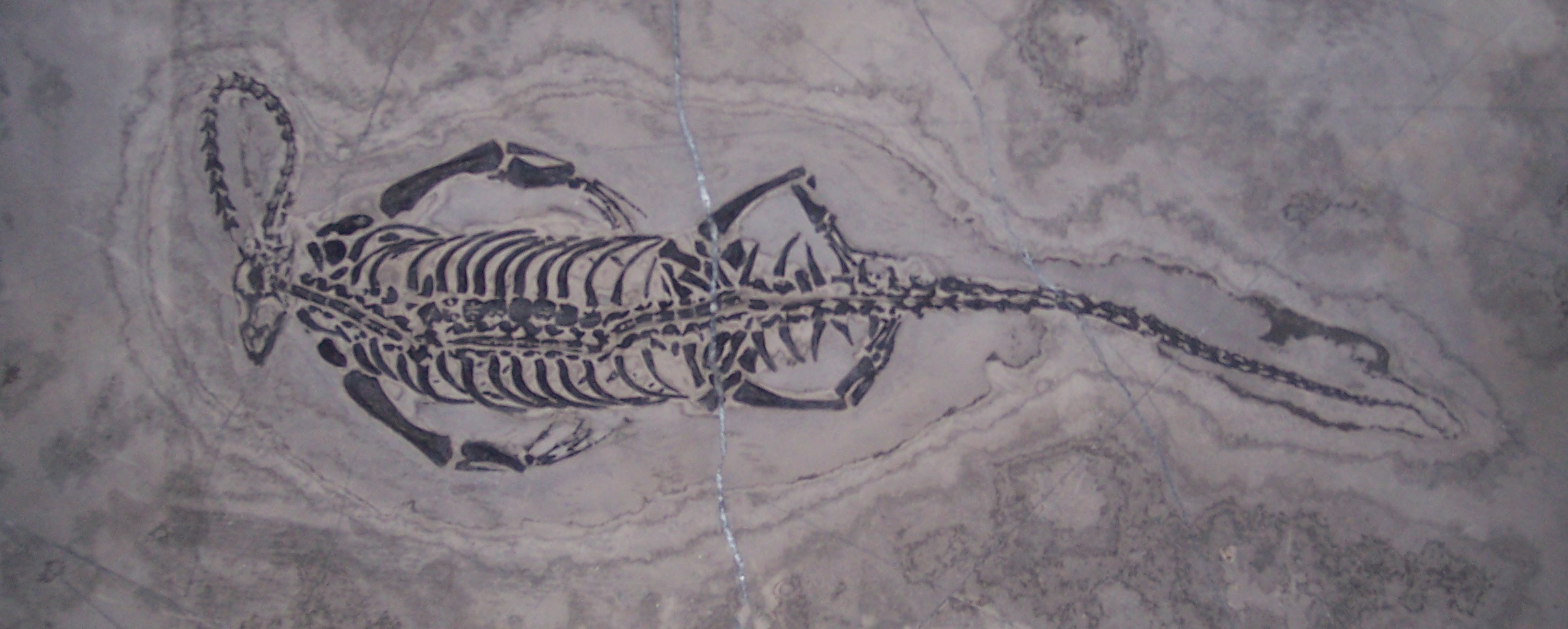 Keichosaurus specimen. Note the neck is twisted around with the head laying back on it.